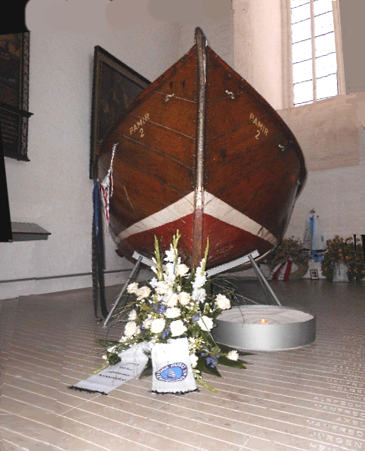 Jakobikirche Lübeck - The lifeboat No. 2 of the sailing ship Pamir in the National Memorial of commercial shipping, the so-called Pamir chapel in November 2014.